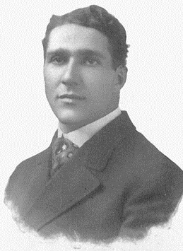 Photograph of Missouri football coach John F. McLean